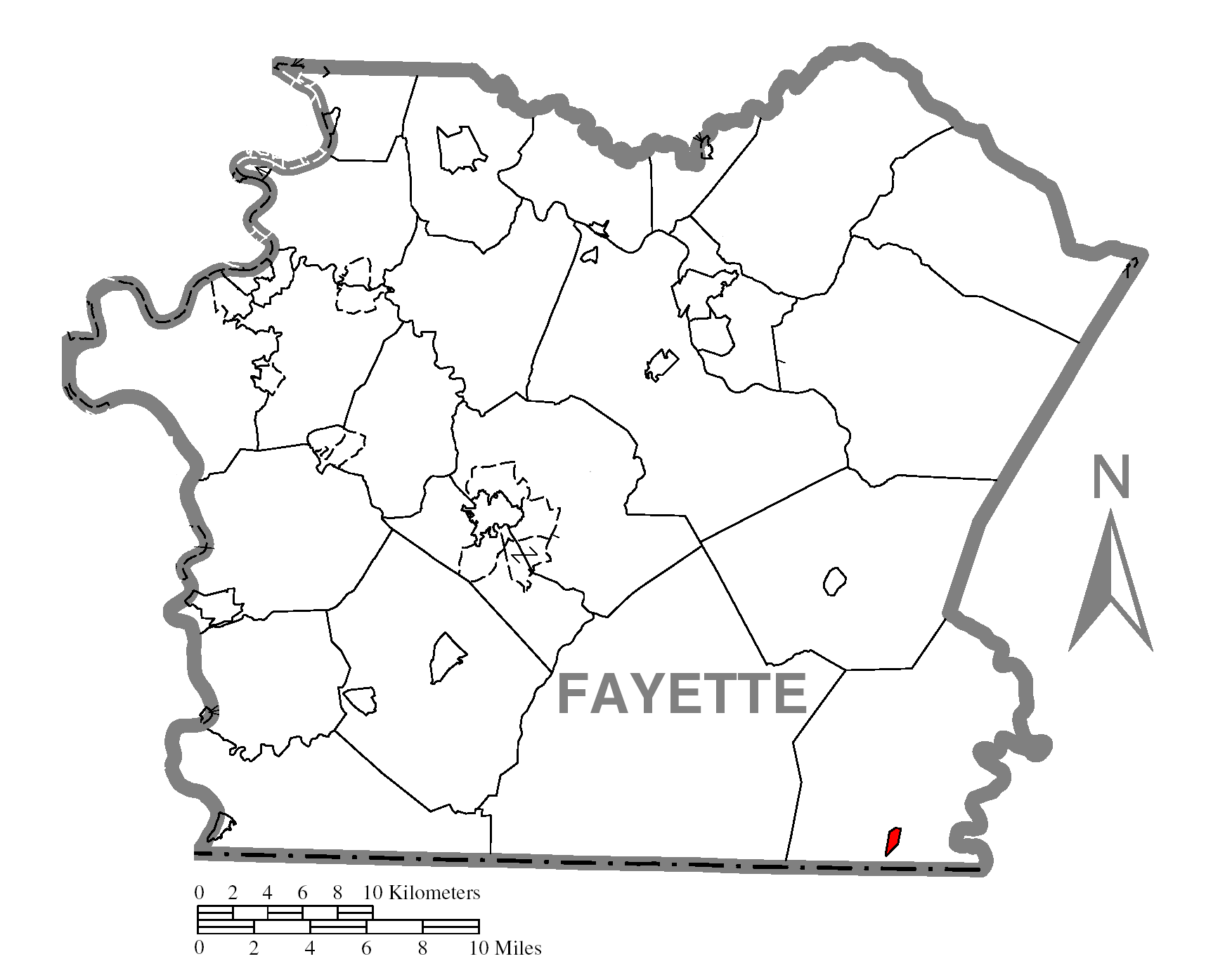 Map of Fayette County higlighting Markleysburg.